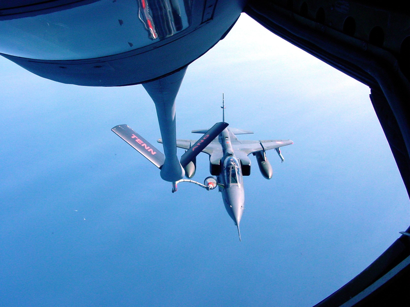 A Tennessee Air National Guard KC-135 Stratotanker refuels a French Jaguar on March 18. Both aircraft are assigned to the 401st Air Expeditionary Wing at Aviano Air Base, Italy, supporting NATO missions in the Balkans